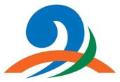 Minamiechizen Fukui chapter